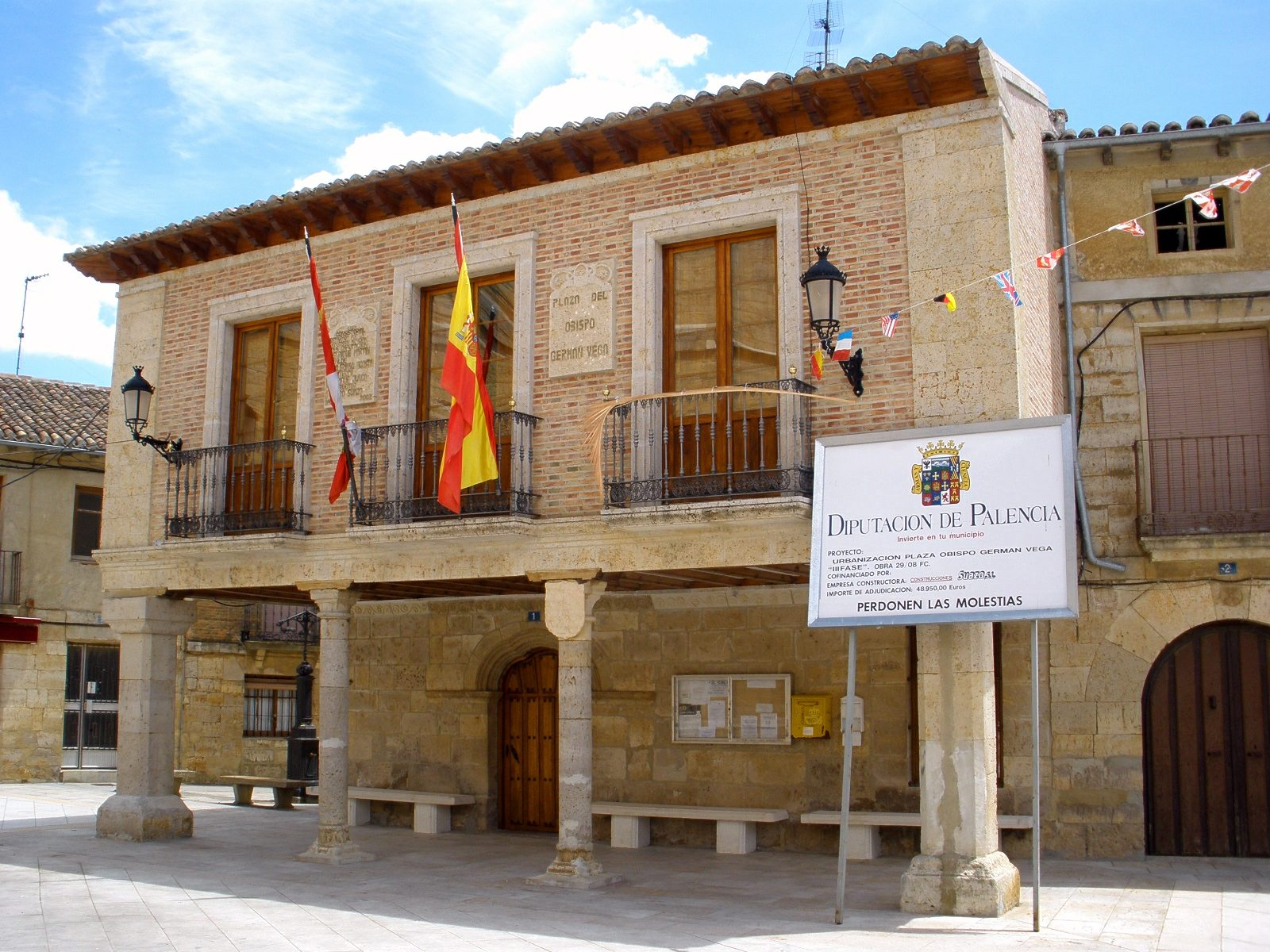 Ayuntamiento de Amusco (Palencia)